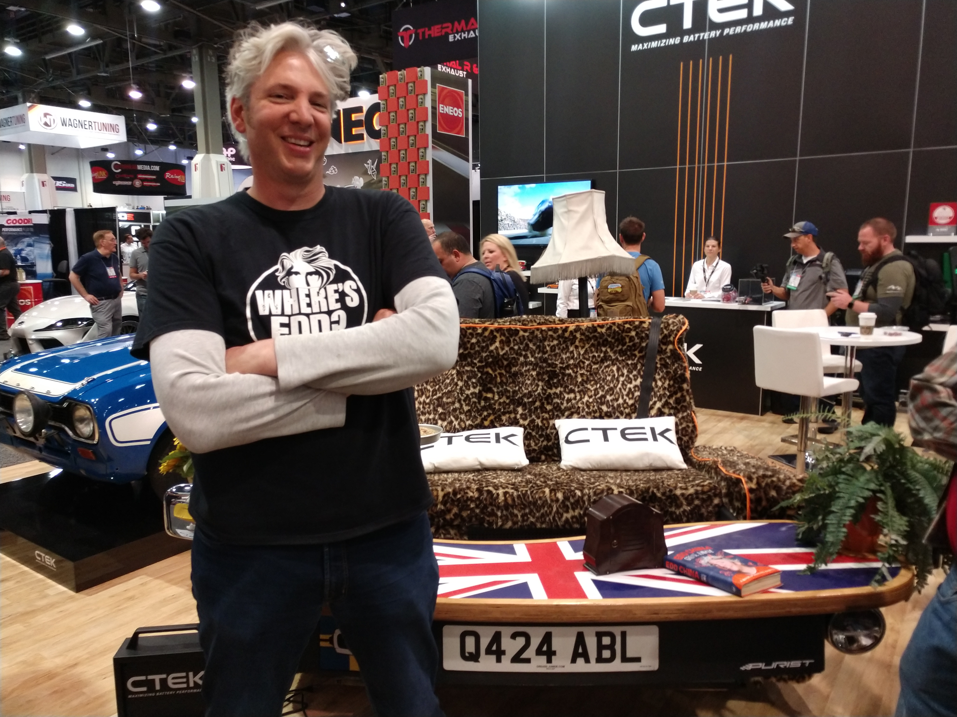 Edd China with the "Casual Lofa" at the CTEK booth at SEMA 2019.